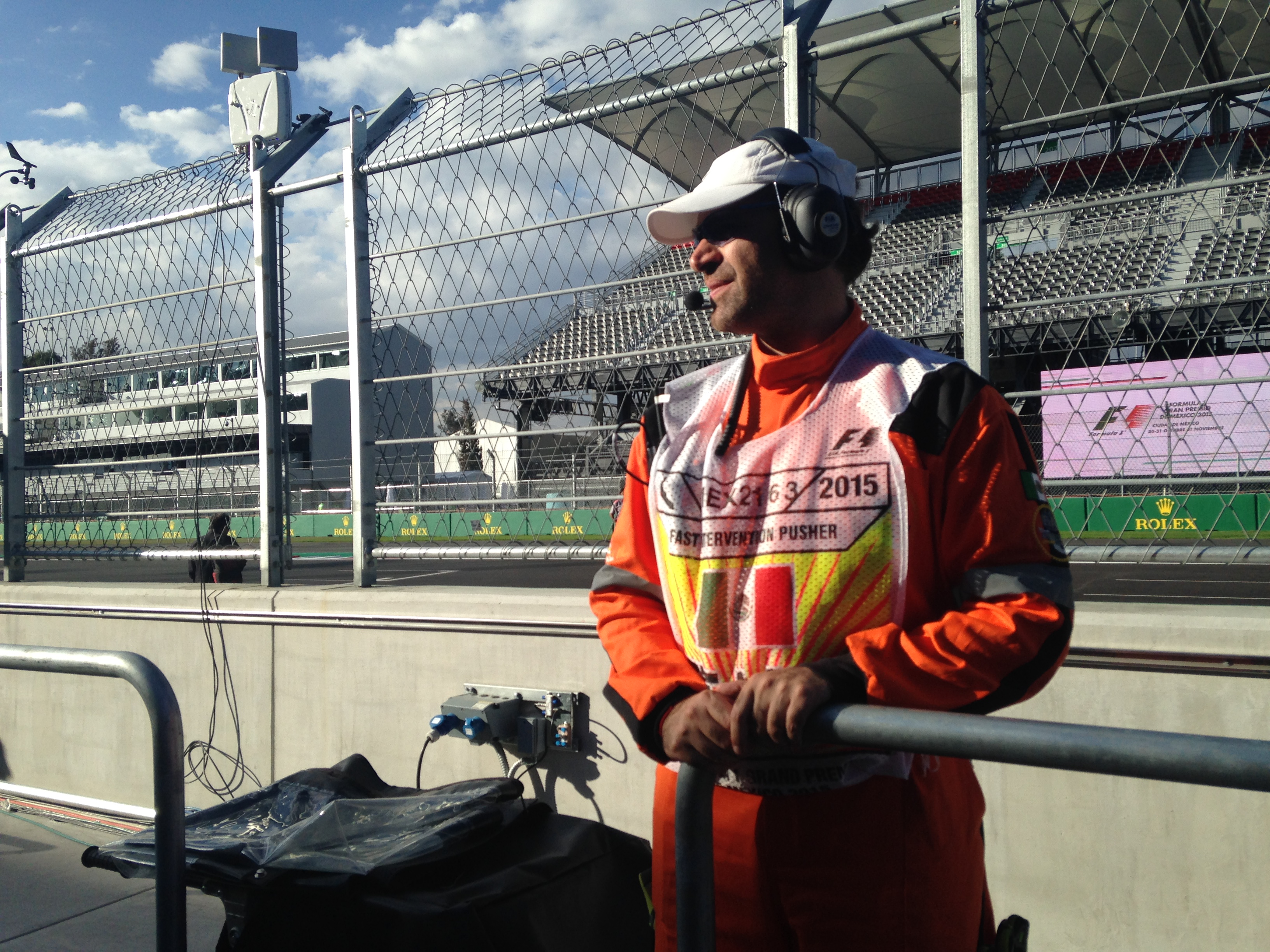 PitWalk Mexican Grand Prix 2015, Autódromo Hermanos Rodríguez. Mexico City, Mexico.